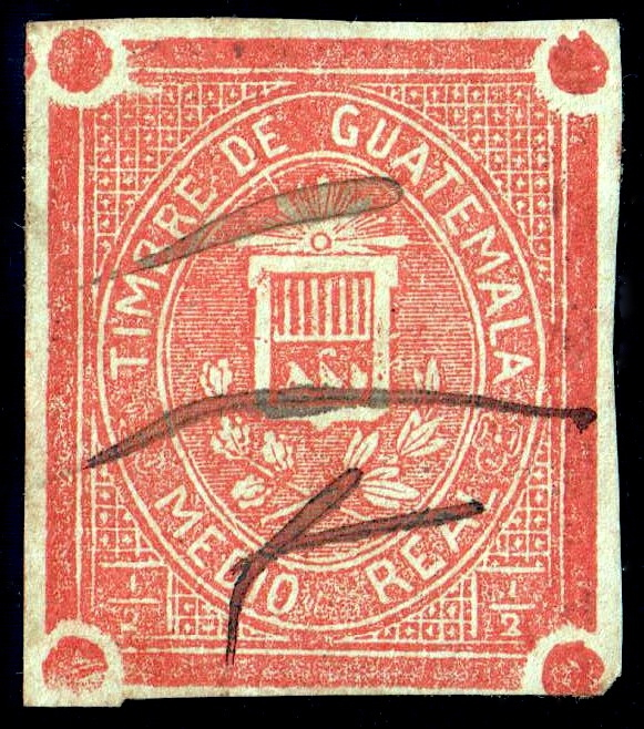 Guatemala 1868 first issue revenue 1/2 real, manuscript cancel. Catalogue: Forbin 1